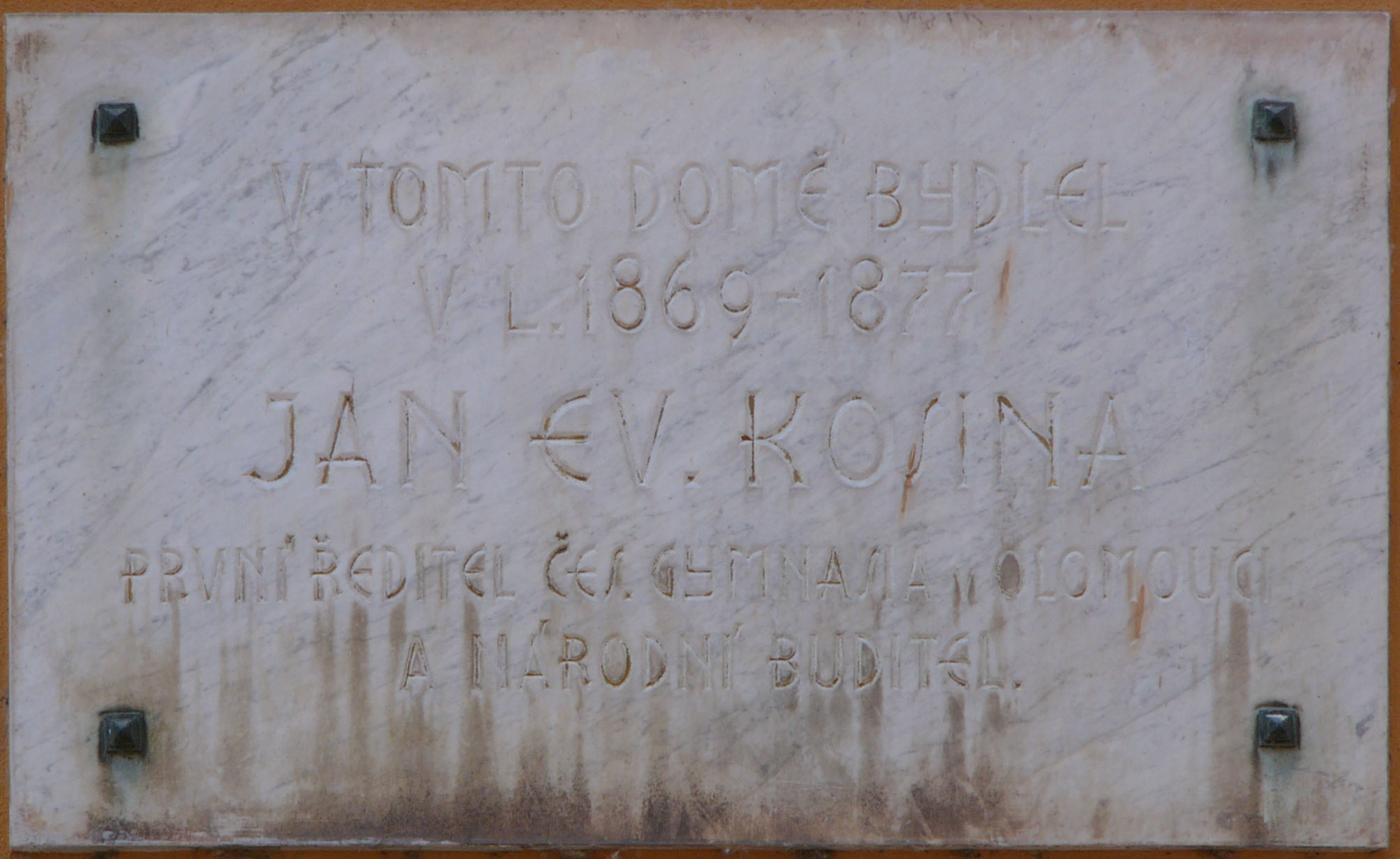 Memorial plaque of Jan Evangelista Kosina at Křížkovského street in Olomouc (Czech Republic).